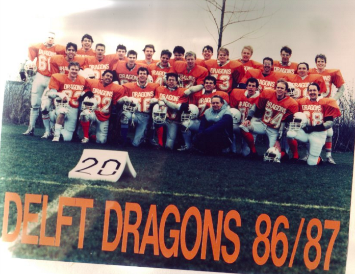 Delft Dragons American Football University Team, 1986-1987 line-up.